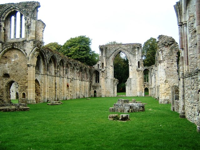 The nave of Netley Abbey looking west from the crossing. After the Dissolution this building was turned into the great hall and kitchens of the mansion. In the far wall can be seen signs of the collapse that killed Walter Taylor, the 18th century contractor who tried to demolish the church.